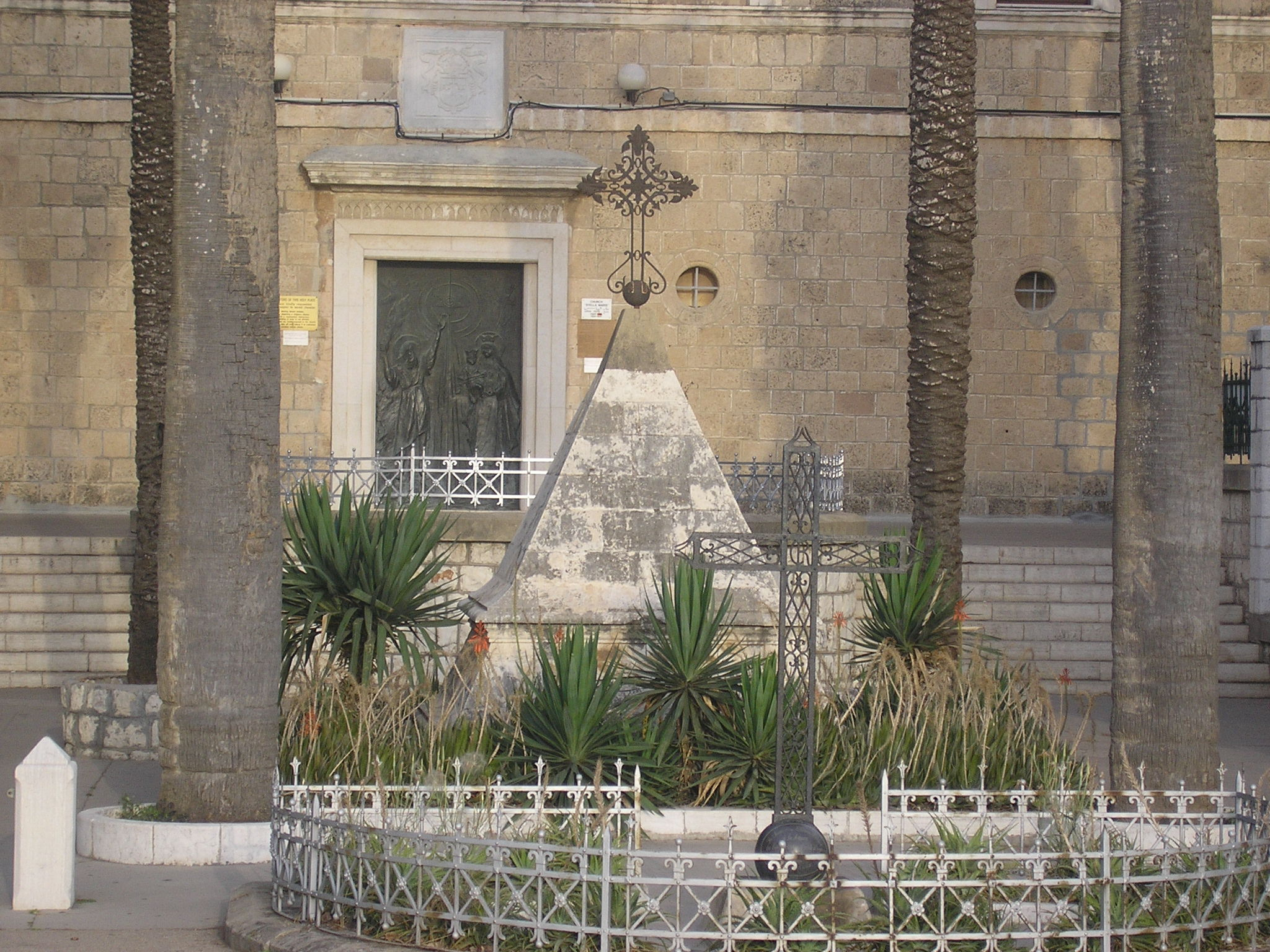 Memorial stone to Napoleons soldiers butied in the Stella Maris Monastery in Haifa, Israel יד זכרון לחיילי נפוליון הקבורים במנזר סטלה מאריס בחיפה